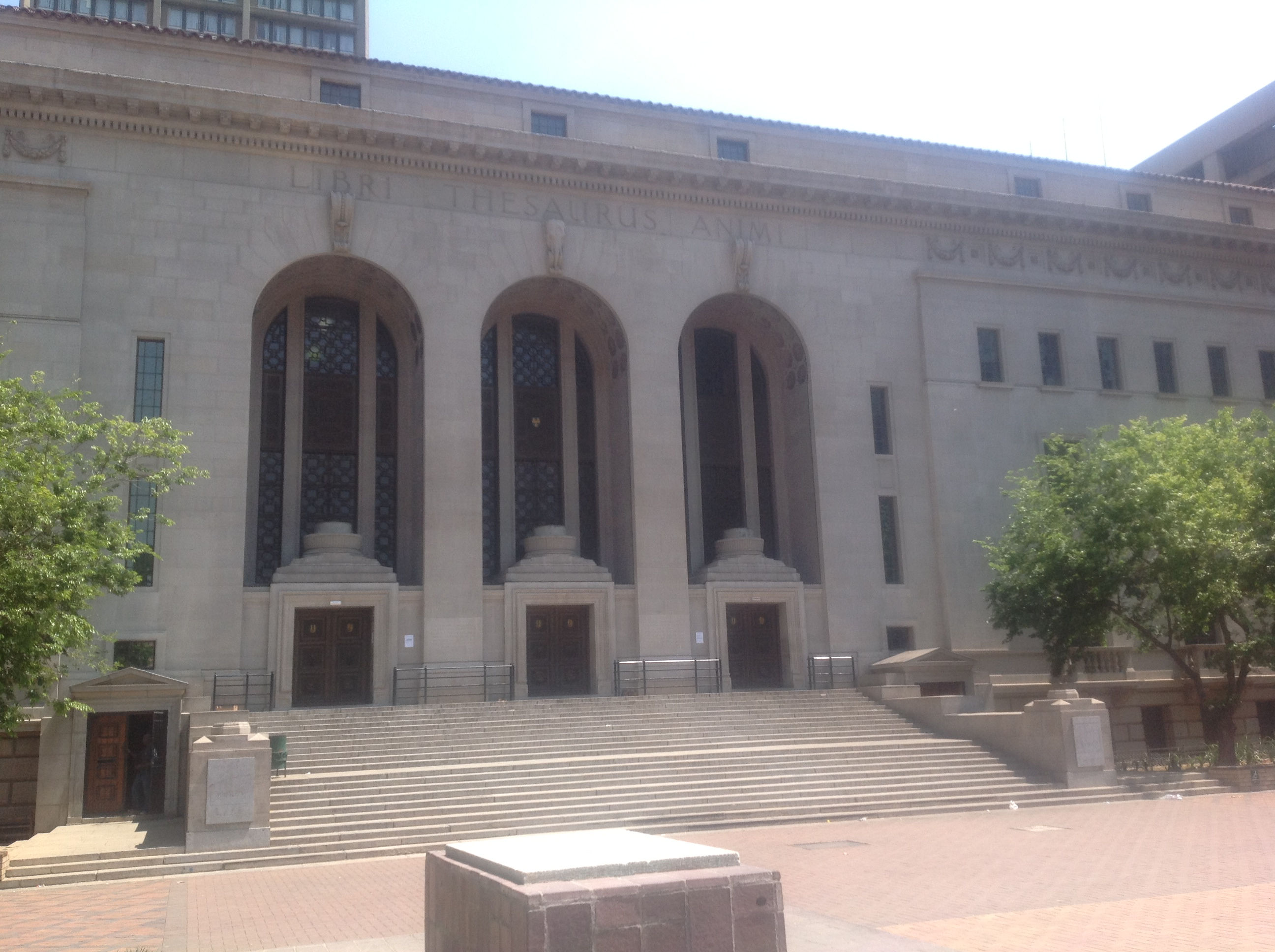 The Johannesburg City Library is situated in the central business district of the City of Johannesburg.[2] Located in an Italianate building[3] which first opened in 1935, the library was closed in 2009 for three years of extensive refurbishment. This media shows a South African Protected Site with SAHRA file reference NEW.